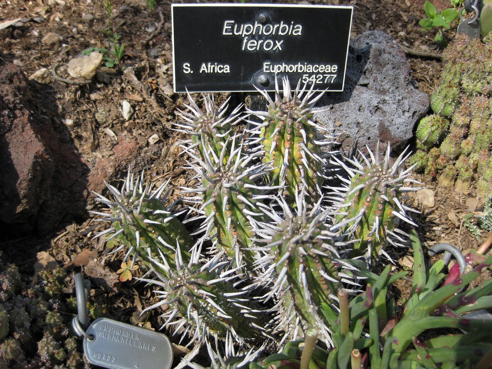 Photographed at Huntington Gardens (Los Angeles, California) in March